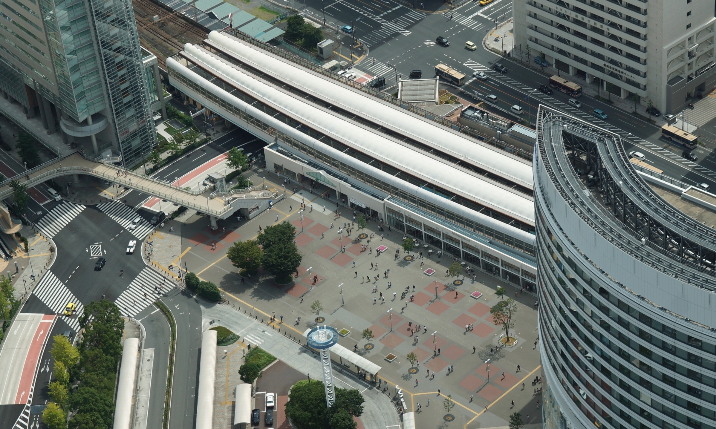 Sakuragicho Station as viewed from the observation deck of the Yokohama Landmark Tower